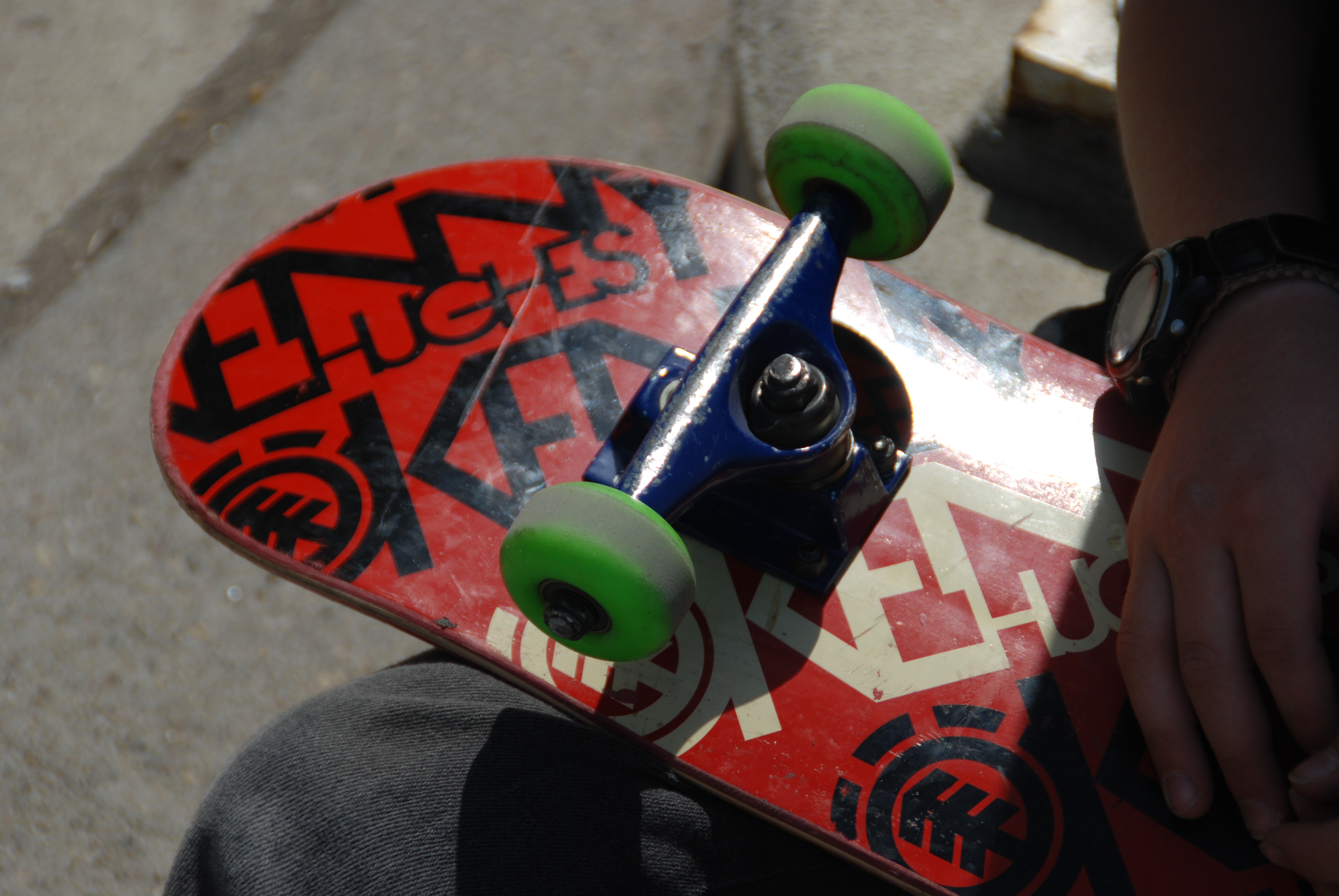 Element Skateboard with Trucks